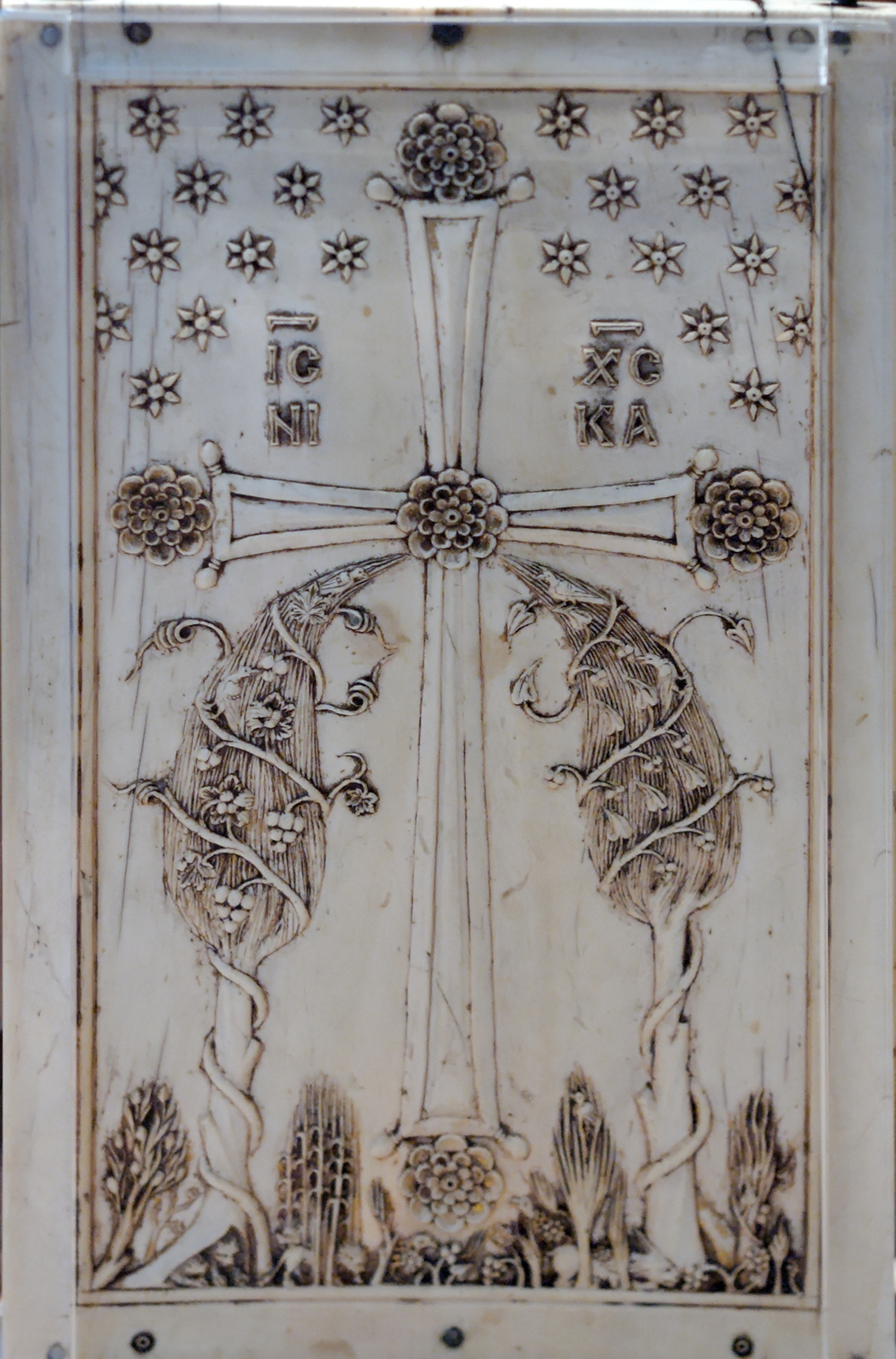 The Holy Cross, two trees of life and the inscription "Iesous Christos nika", viz. "Jesus Christ conquers". Harbaville Triptych: close-up on the middle leaf, verso.